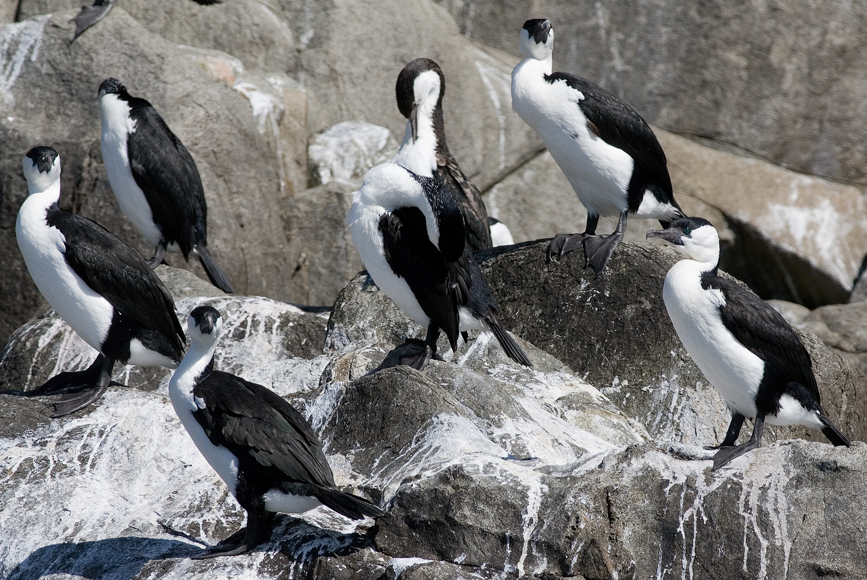 Phalacrocorax fuscescens Roosting, Bruny Island, Tasmania, Australia Camera data Camera Canon EOS 400D Lens Canon EF 400mm f5.6L Focal length 400 mm Aperture f/8 Exposure time 1/1600 s Sensivity ISO 400